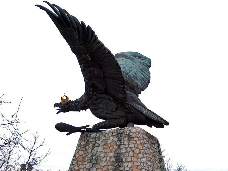 Bird of Turul, near the City of Tatabanya in Hungary.